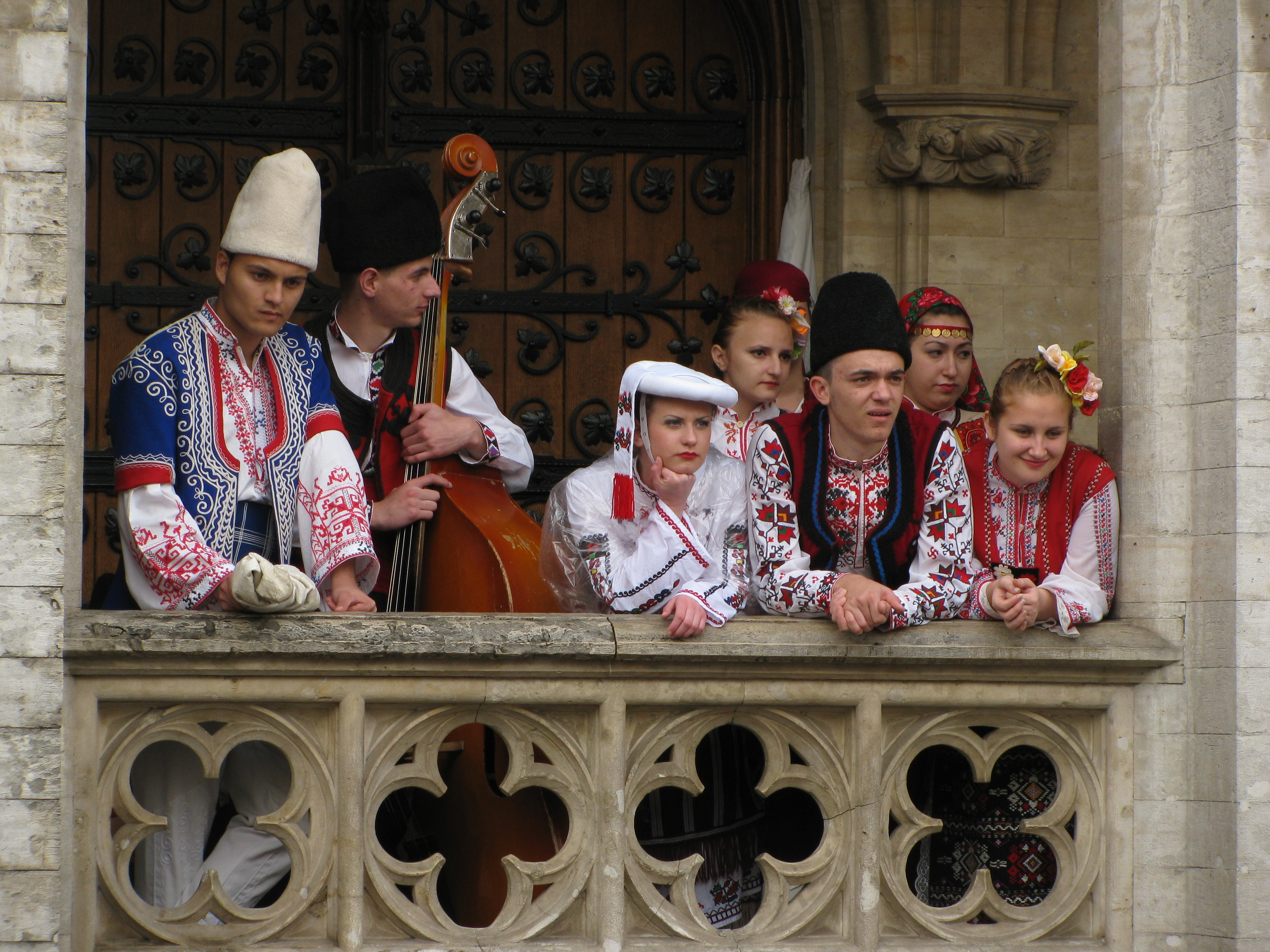 Bulgarian folk dancers and musicians after a performance at the Grand Place in Brussels, May 2014.